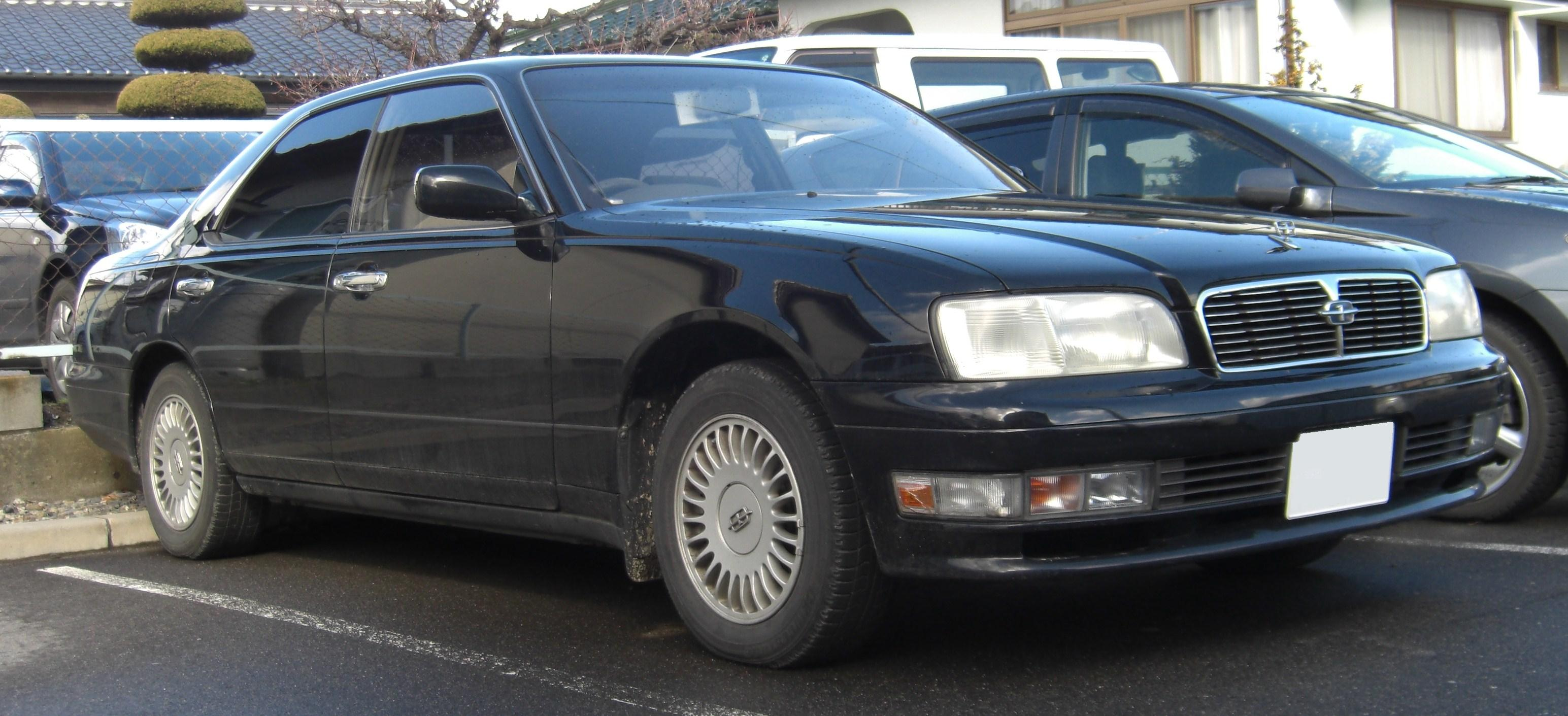 NISSAN Gloria